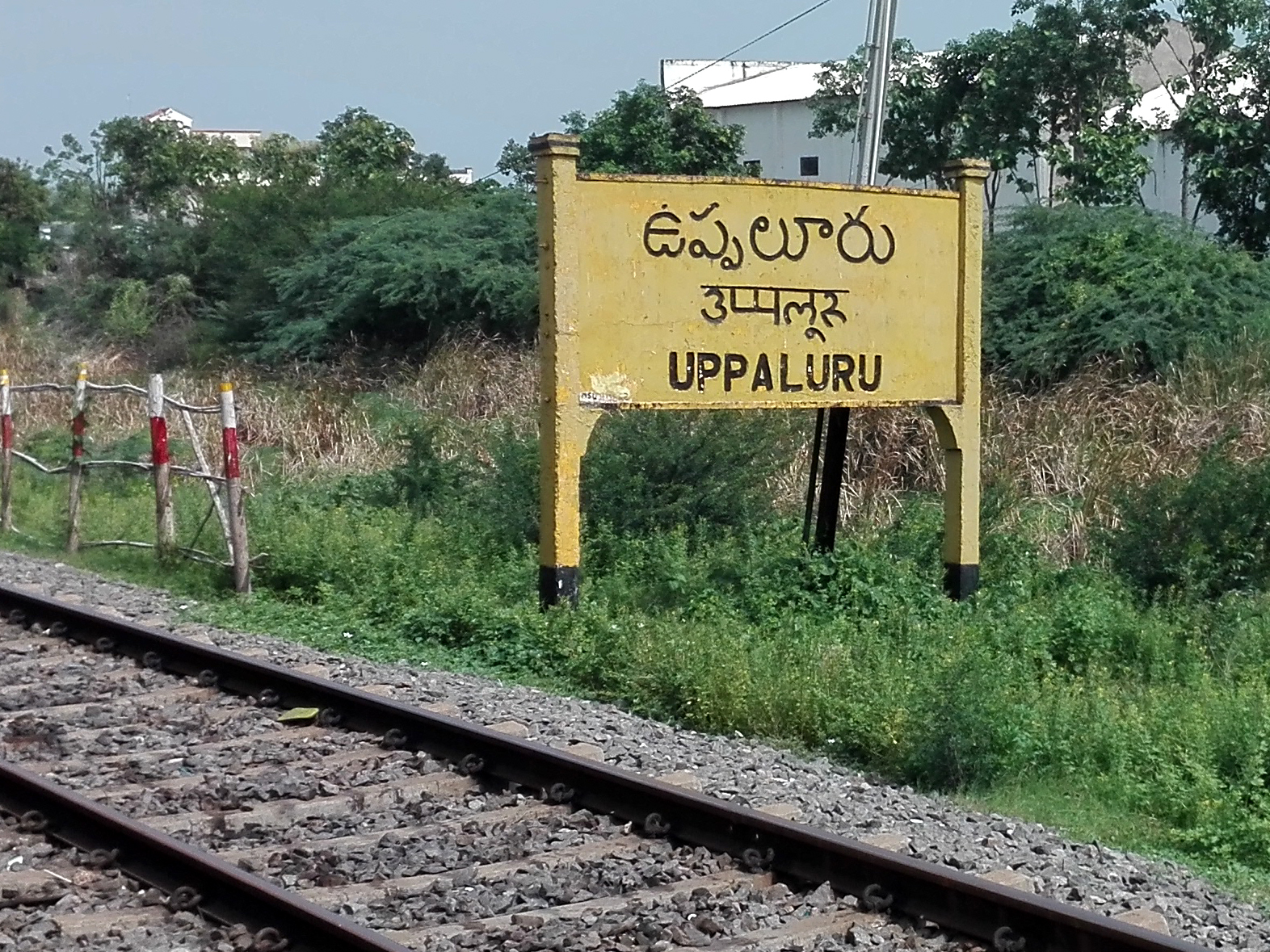 Uppaluru Railway station name board in Krishna district